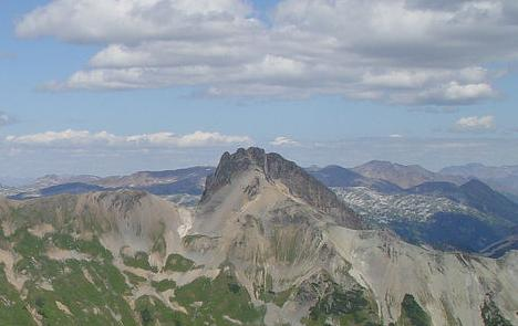 Chipmunk Mountain looking to the north.